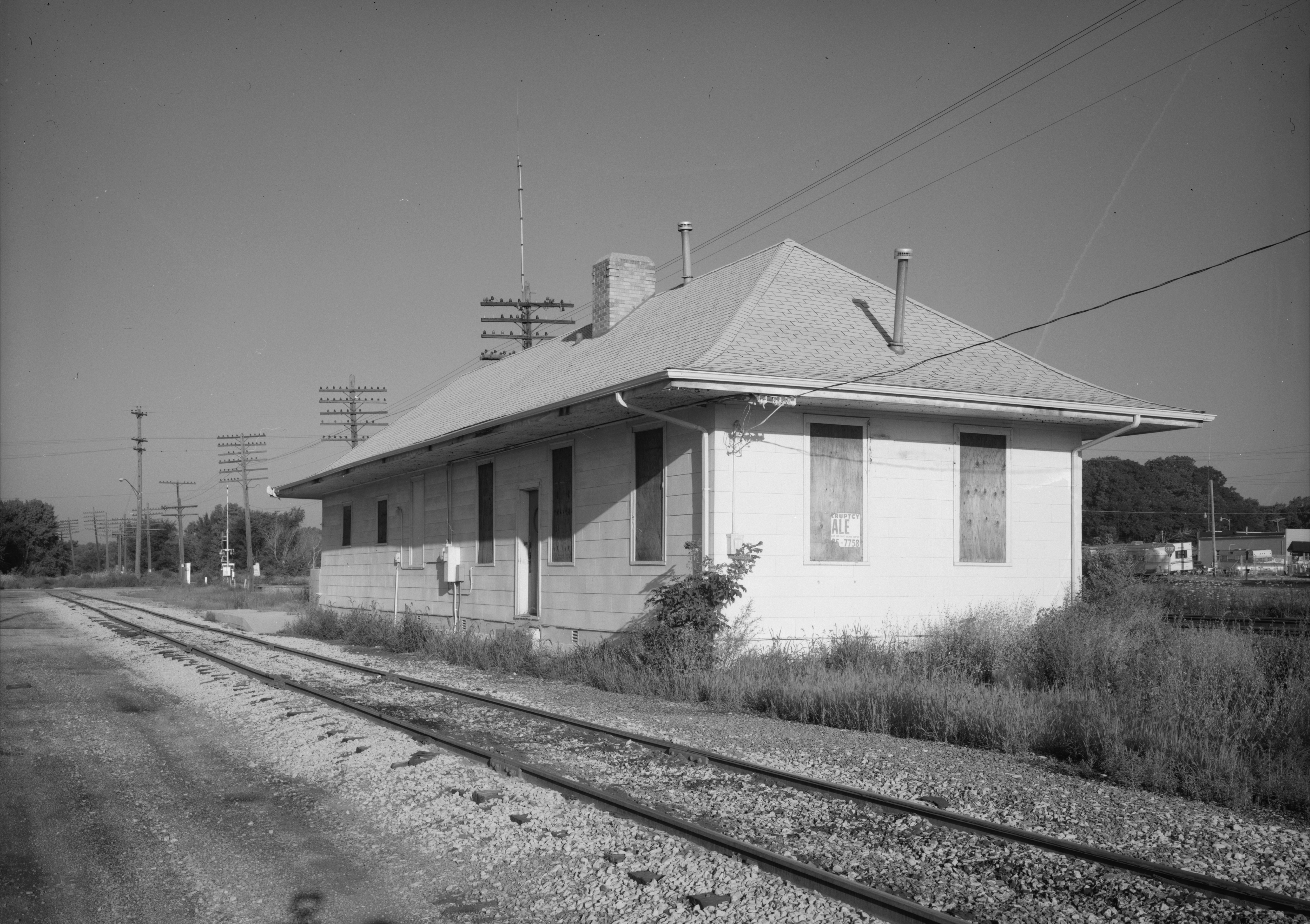 South and east facades of depot looking northwest.